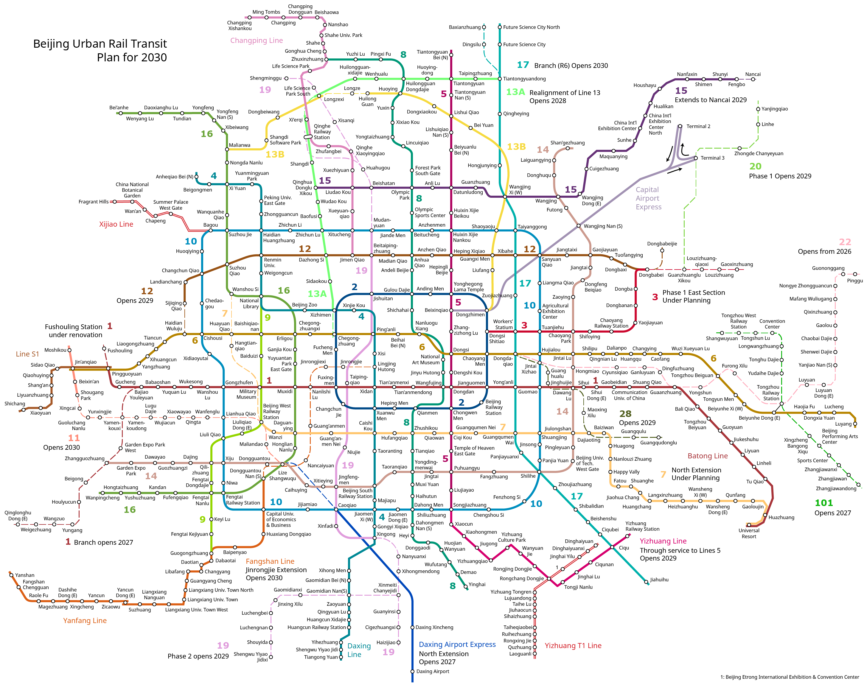 English version of Image:Beijing-Subway-Plan.png